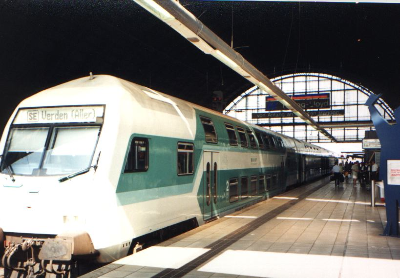 DB double-deck train as StadtExpress service between Bremen-Vegesack and Verden (Aller), in Bremen Hauptbahnhof.